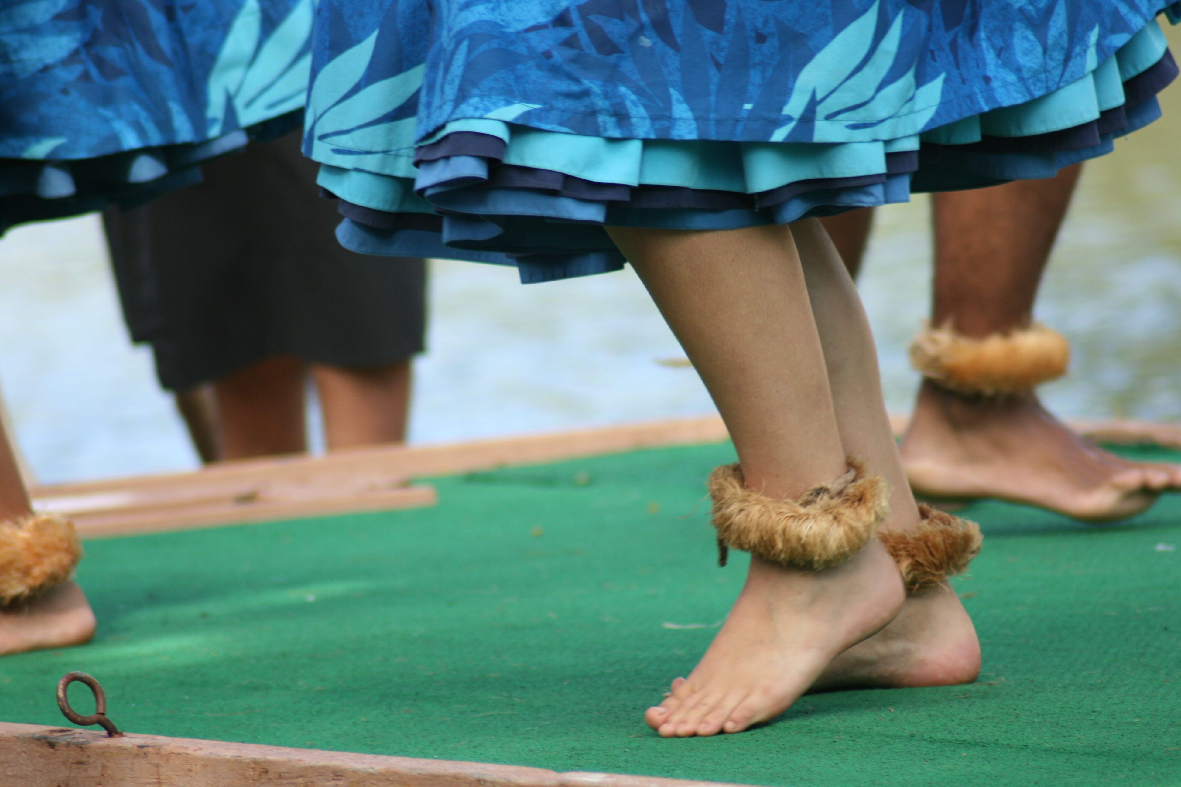 Females dancing barefoot